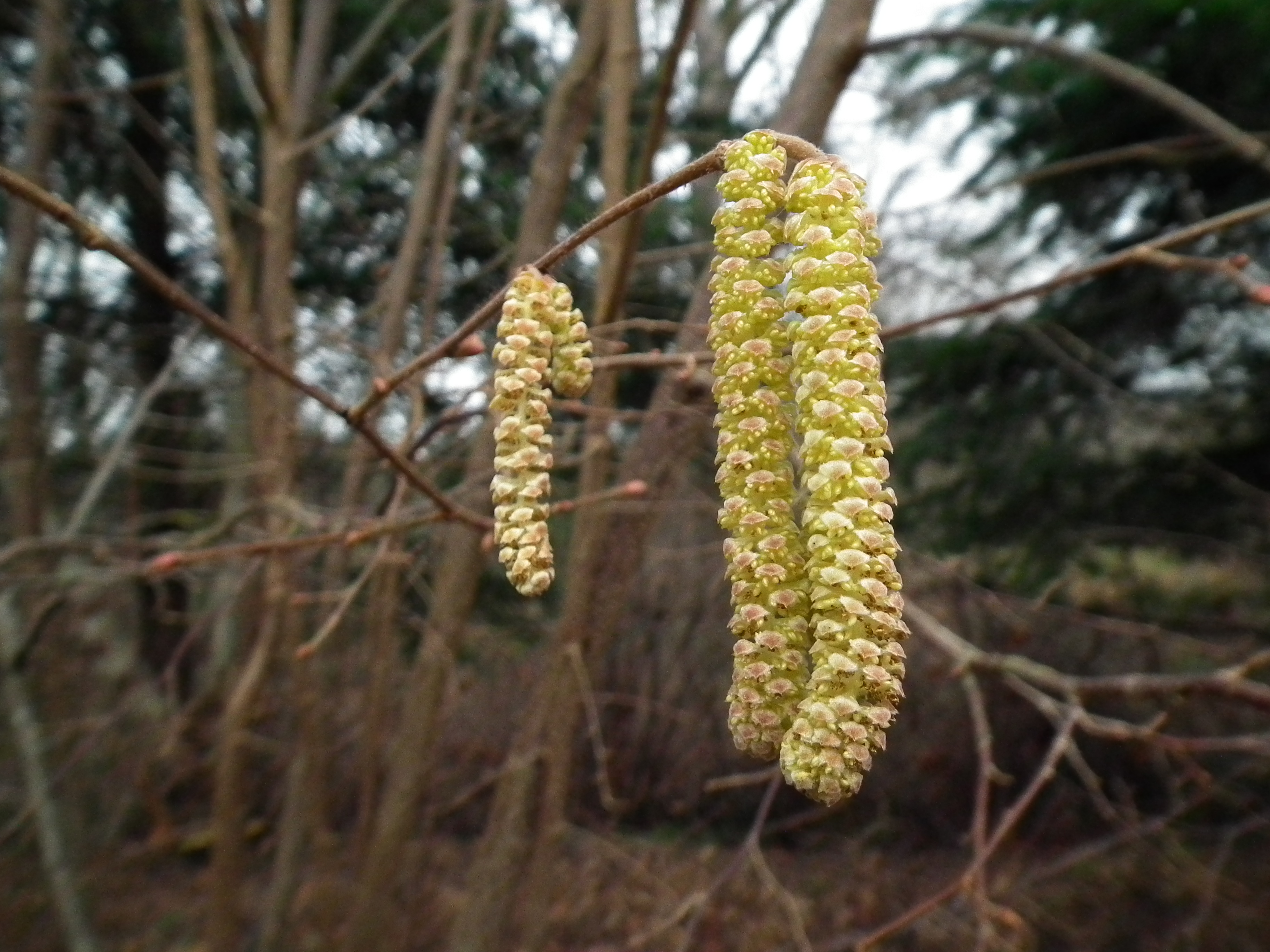 Catkins on Corylus cornuta (beaked hazel) in winter. Near Meadowbrook Pond, northeast Seattle, WA, USA.